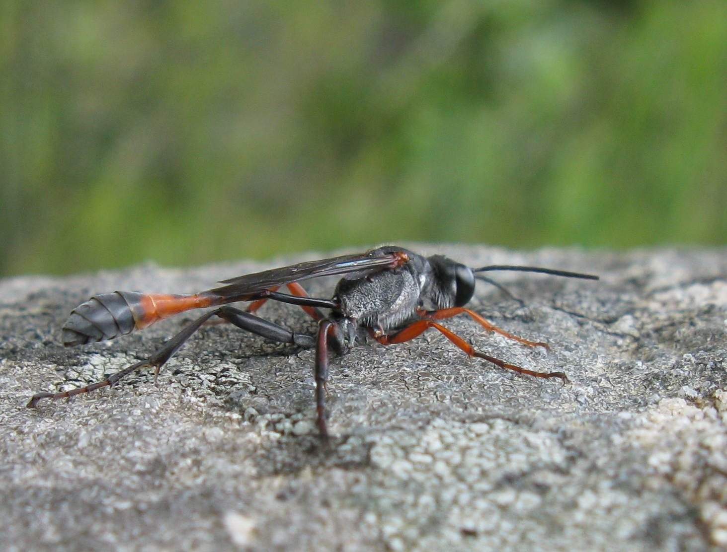 Ammophila (probably ferrugineipes) Thread-waisted wasp basking on sandstone on chilly spring morning